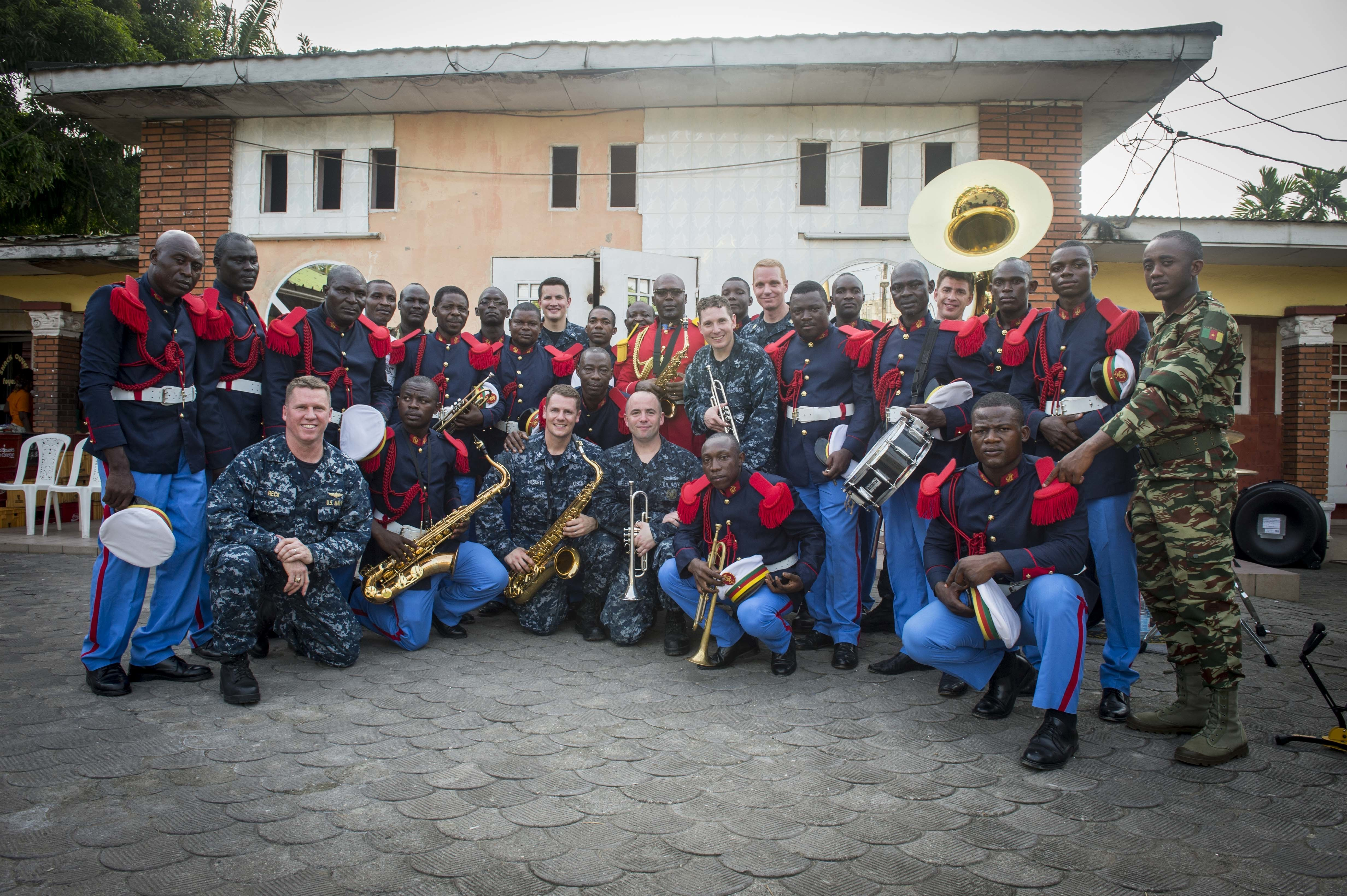 150314-N-JP249-245 DOUALA, Cameroon (March 14, 2015) U.S. 6th Fleet Vice Commander Rear Adm. Tom Reck, left, poses with members of the U.S. Naval Forces Europe Band, Topside, and the Cameroonian military band March 14, 2015, in Douala, Cameroon, during Africa Partnership Station. Africa Partnership Station, an international collaborative capacity-building program, is being conducted in conjunction with a scheduled deployment by the Military Sealift Command’s joint high-speed vessel USNS Spearhead (JHSV 1). (U.S. Navy photo by Mass Communication Specialist 2nd Class Kenan O’Connor/Released)